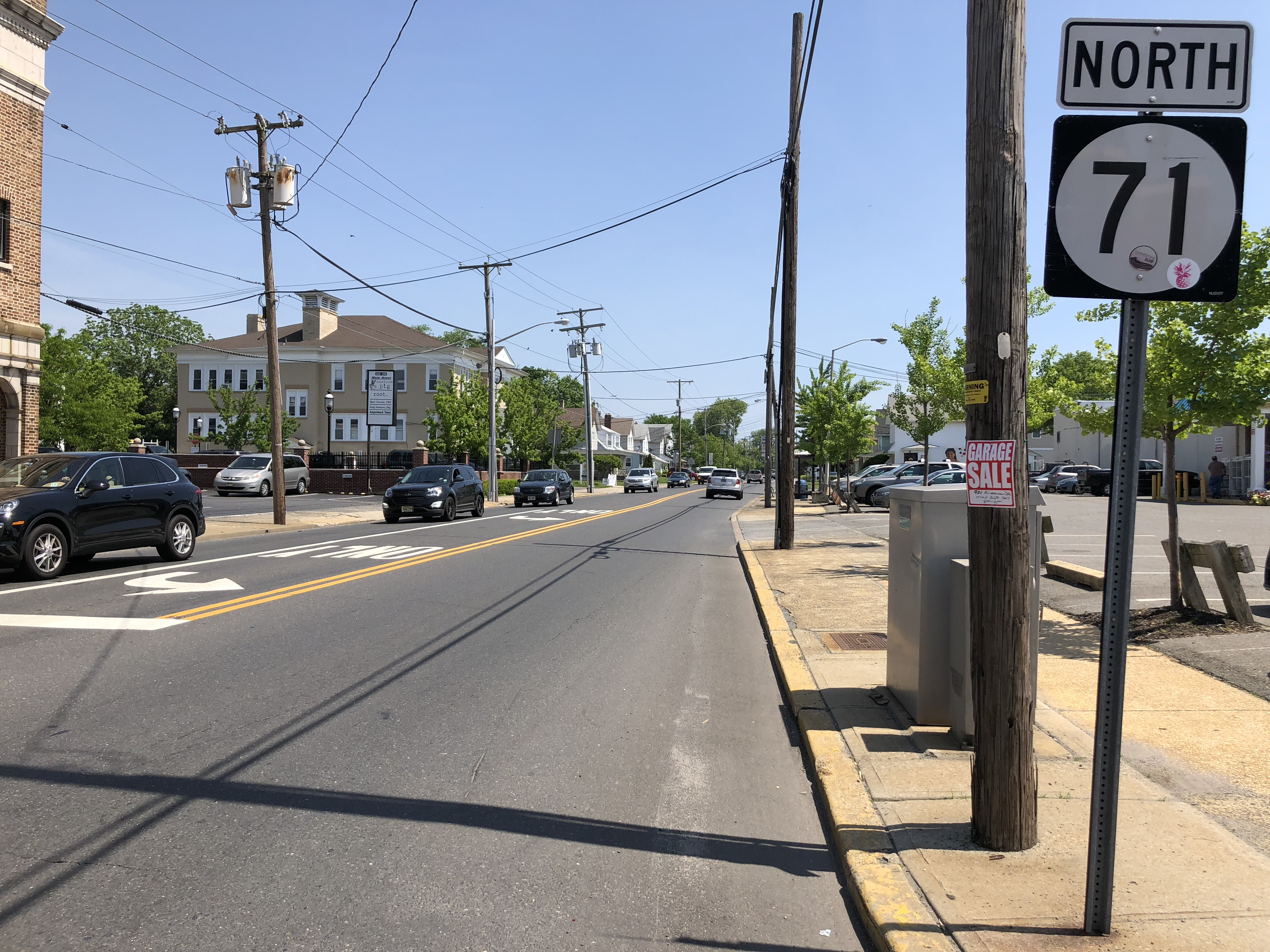 View north along New Jersey State Route 71 (Taylor Avenue) at Main Street in Manasquan, Monmouth County, New Jersey